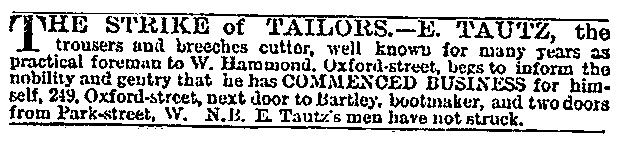 Advertisement announcing the creation of E. Tautz, a "trousers and breeches cutter".